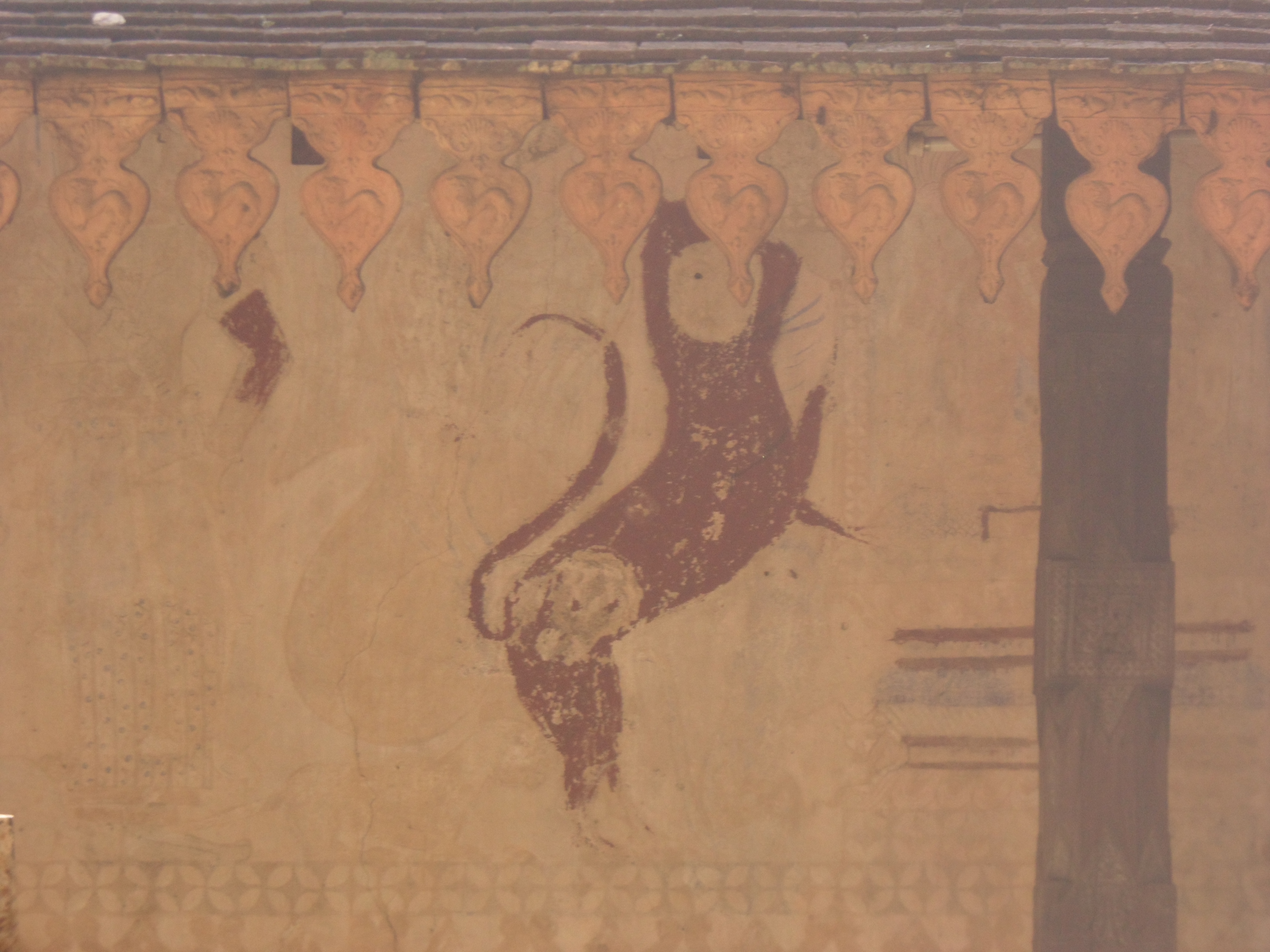 Badulla Kataragama devale